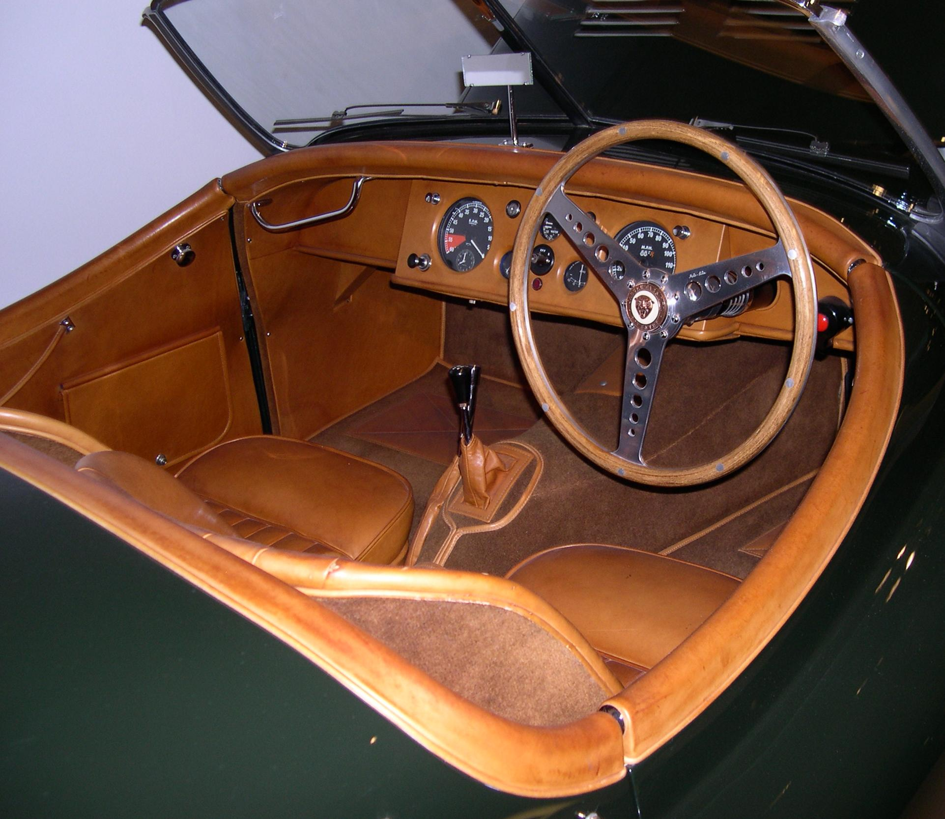 1950 Jaguar XK120 From the Ralph Lauren collection on display at the Boston Museum of Fine Arts. Photo taken in 2005. Source: Photo by User:Sfoskett